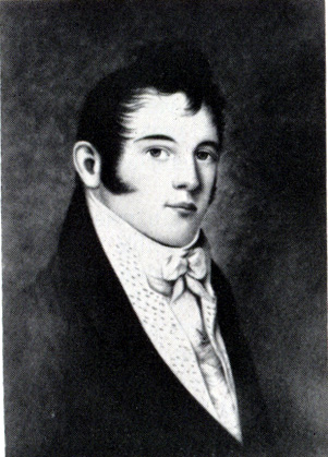 Richard Dobbs Spaight, Jr. (1796 – November 2, 1850), the 27th Governor of the U.S. state of North Carolina, from 1835 to 1836.